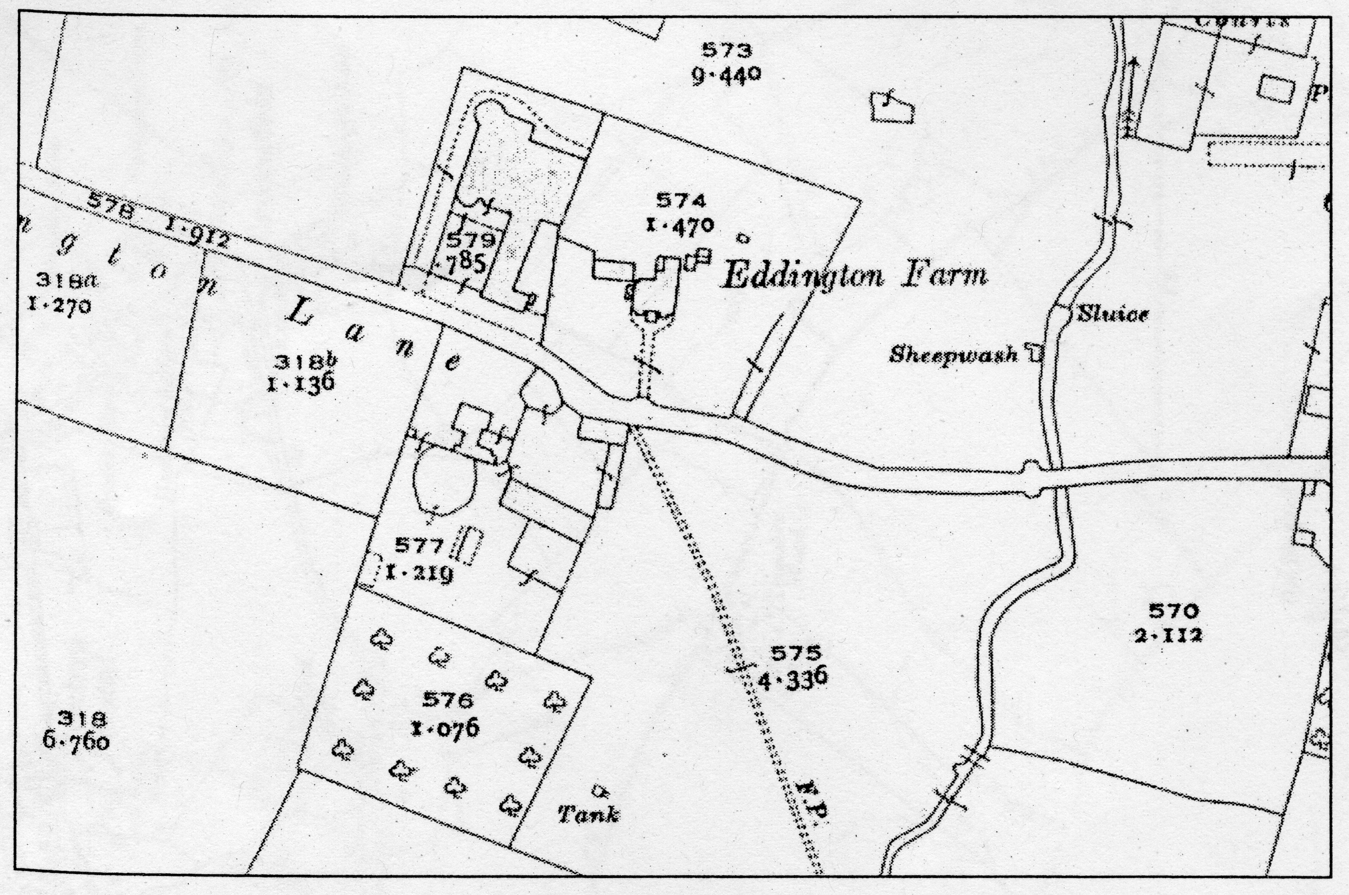 Part of 1932 OS map (inch-map; England and Wales sheet) of Eddington Farm at Eddington in East Kent, England.